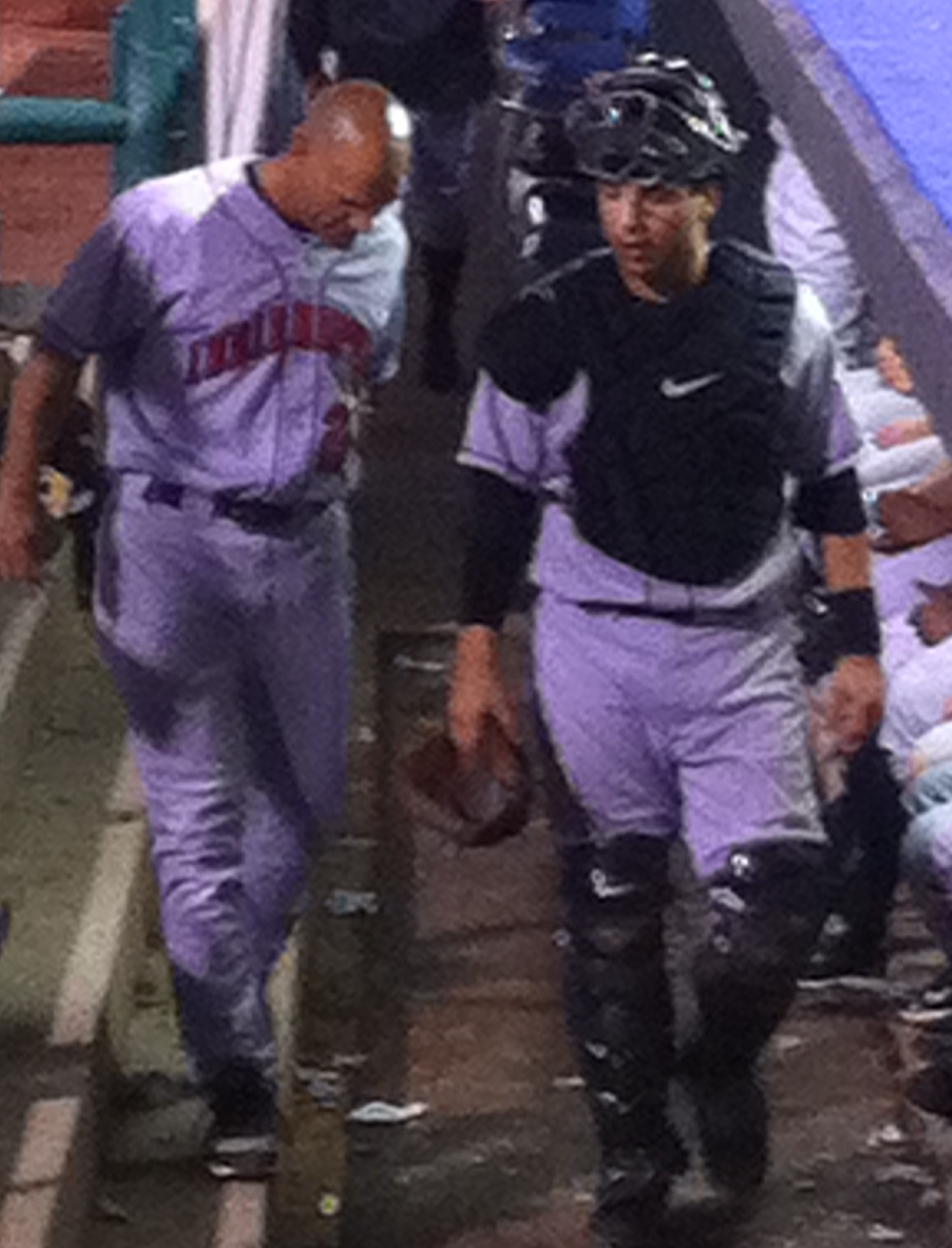 Frank Kremblas with catcher Jason Jaramillo.